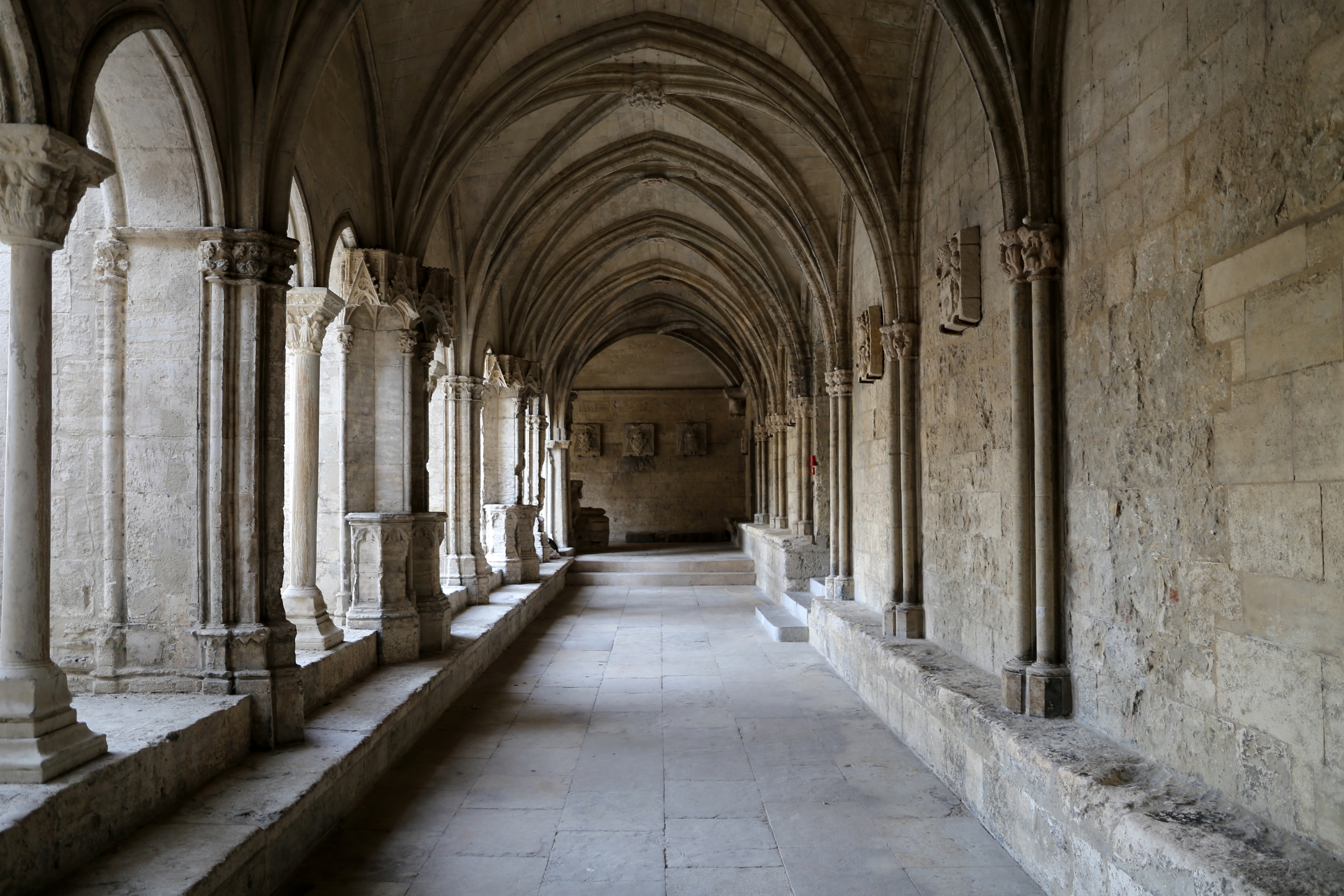 Cloister of Saint-Trophime (Arles)